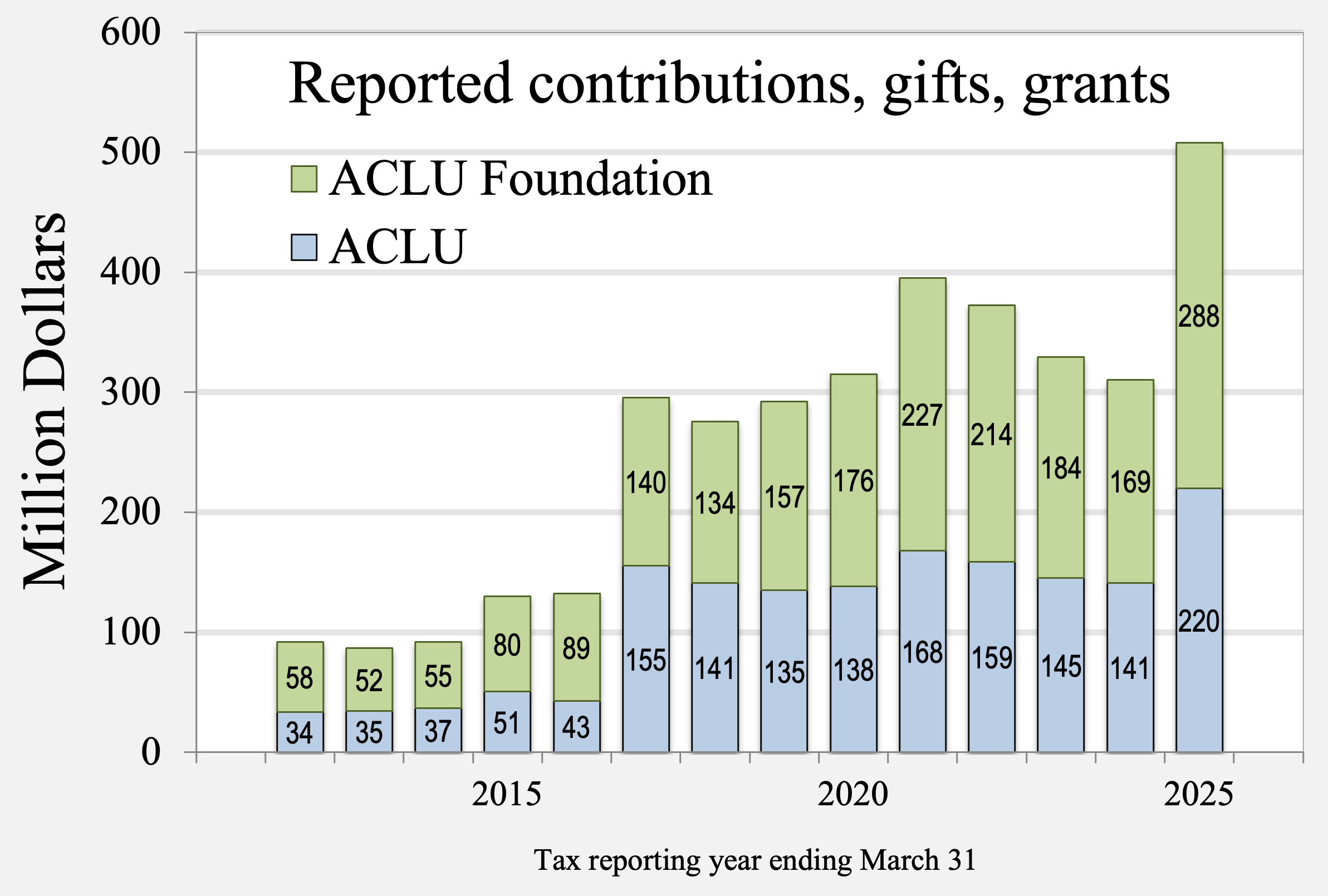 Graph of amounts entered into IRS Form 990 (Form 990 - part VIII, Line 1) "Contributions, Gifts, Grants and Other Similar Amounts") by ACLU and ACLU Foundation from March 31, 2012 forward. Data labels in chart are rounded by Microsoft Excel to nearest million. Raw data: ACLU — ACLU Foundation — Year ending March 31 33,691,433 — 58,074,573 — 2012 34,615,205 — 52,043,425 — 2013 36,824,175 — 55,110,331 — 2014 50,508,454 — 79,581,425 — 2015 42,642,964 — 89,472,041 — 2016 155,307,291 — 140,053,645 — 2017 141,043,582 — 134,420,043 — 2018 135,216,702 — 156,940,567 — 2019 138,483,927 — 176,437,112 — 2020 167,943,139 — 227,368,352 — 2021 Archives of sources for ACLU reported donations: Archives of sources for ACLU Foundation reported donations